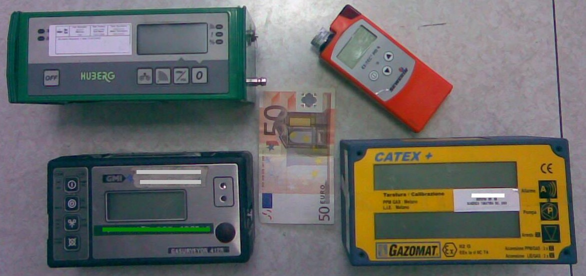 Four explosimeters by four different producers